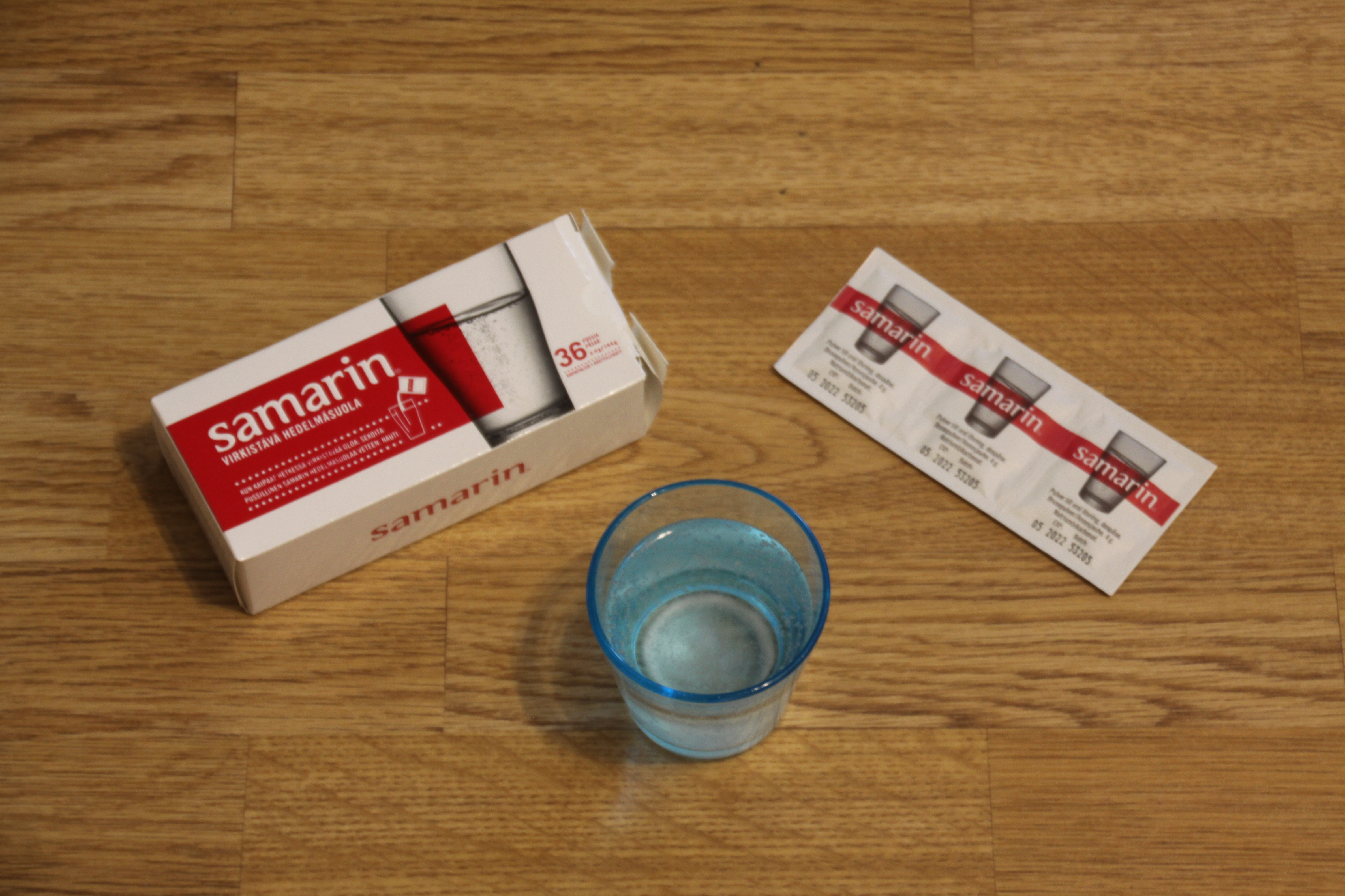 Samarin-powder is a herbal medicine sold in FInland used to treat heartburn.